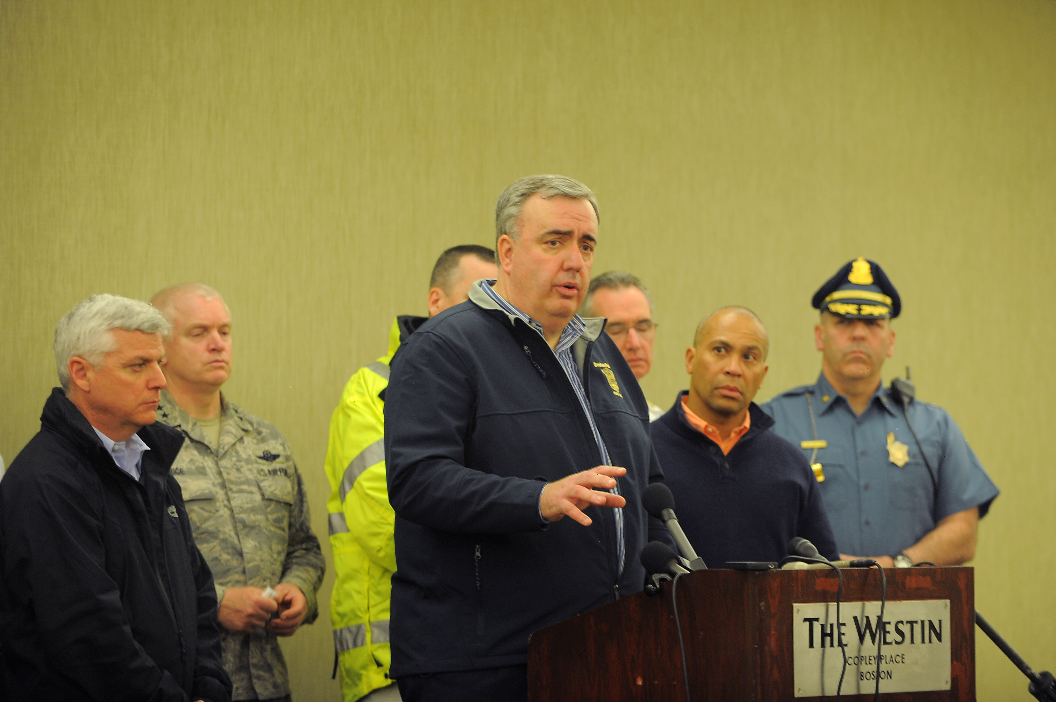 Boston, MA, April 15, 2013: Two explosions went off in Copley Square, directly after the finish line of the Boston Marathon. Boston police commissoner Ed Davis. Photo by: Michael Cummo